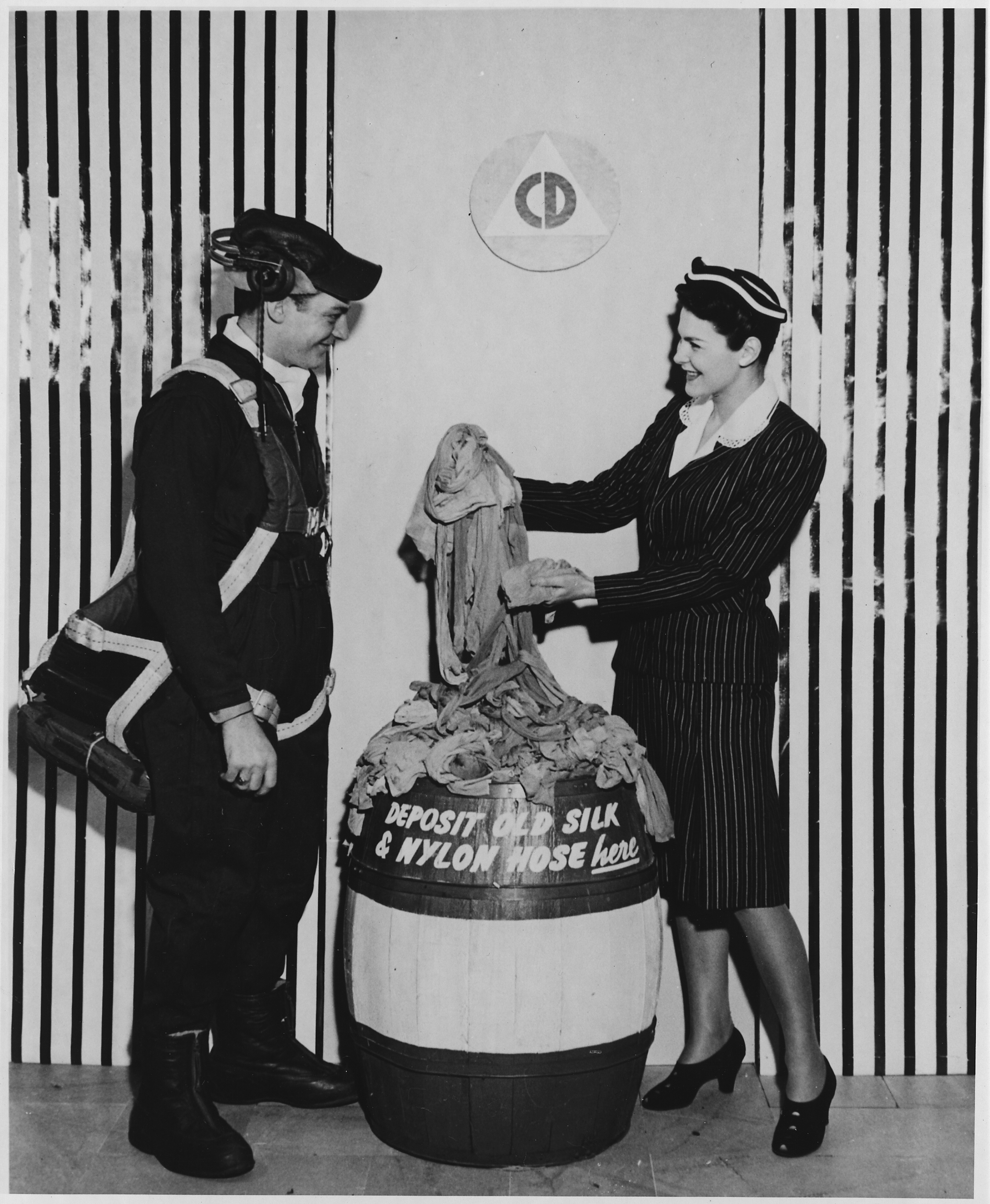 General notes: nylon parachutes